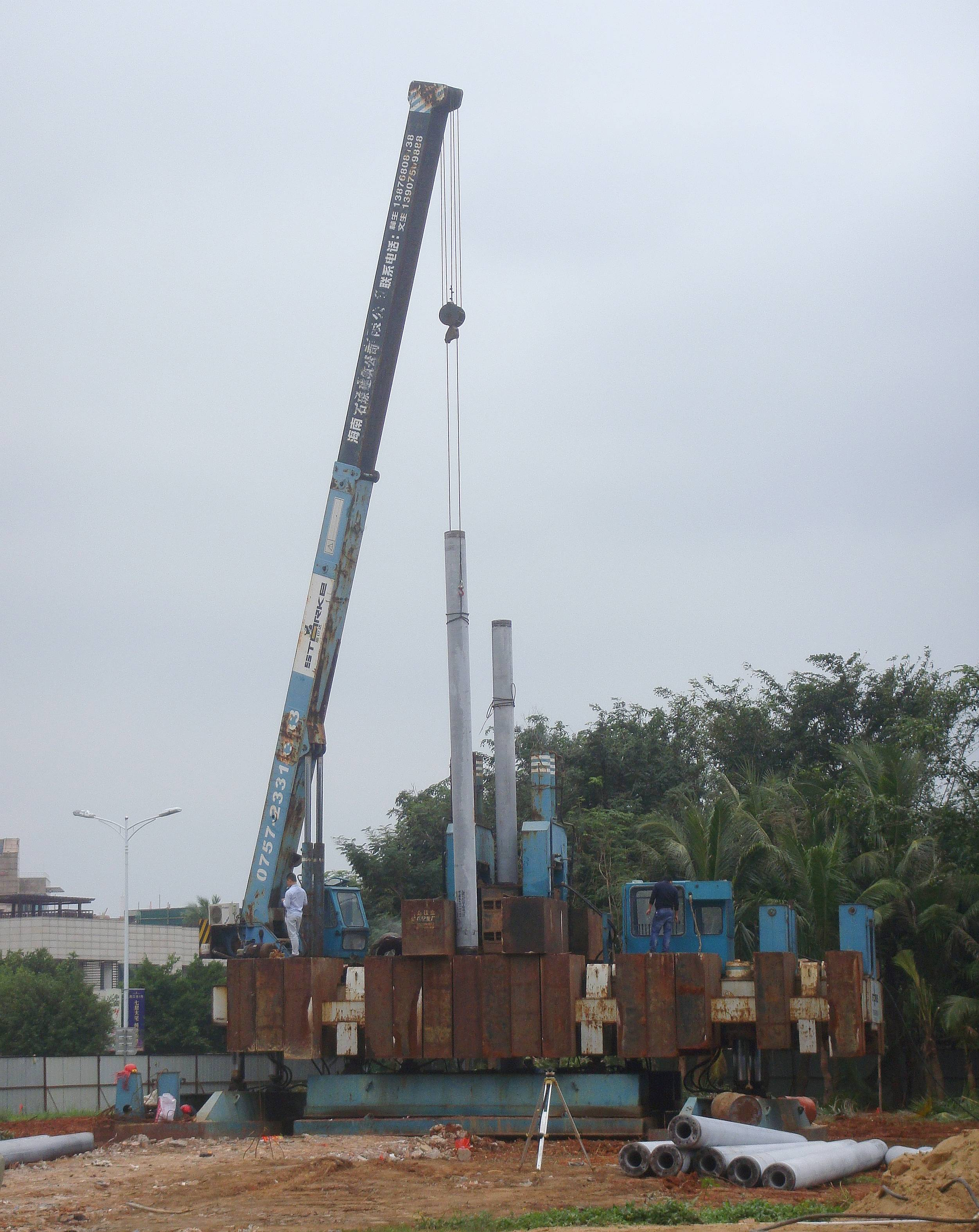 Image of static load testing in Haikou, Hainan, China